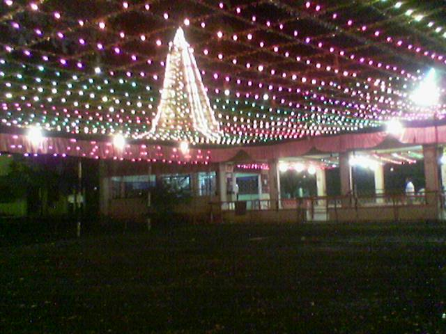 Picture of Saptashringi Mata Mandir, Shahada taken by me during Dipawali festival